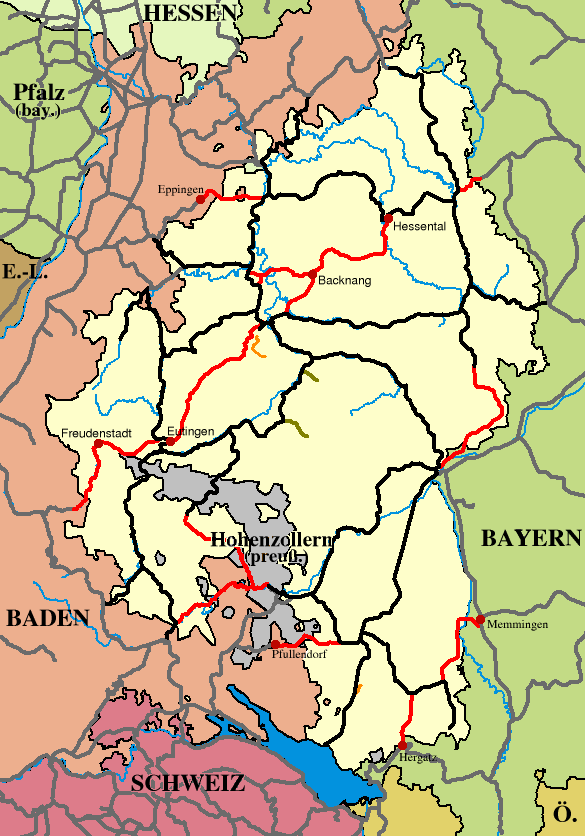 Railroad network of Württemberg as of 1890. Black/beige: State/private railroads until 1874; red/orange: state/private railroads built between 1875 and 1890; gray: railroads outside of Württemberg